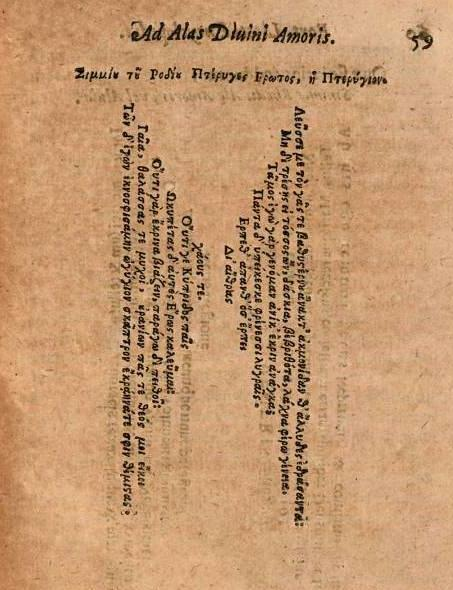 The shaped poem "Wings" by Simmias of Rhodes, reproduced in Ad alas amoris divini a Simmia Rhodio compacta by Fortunio Liceti (1640) in the Austrian National Library